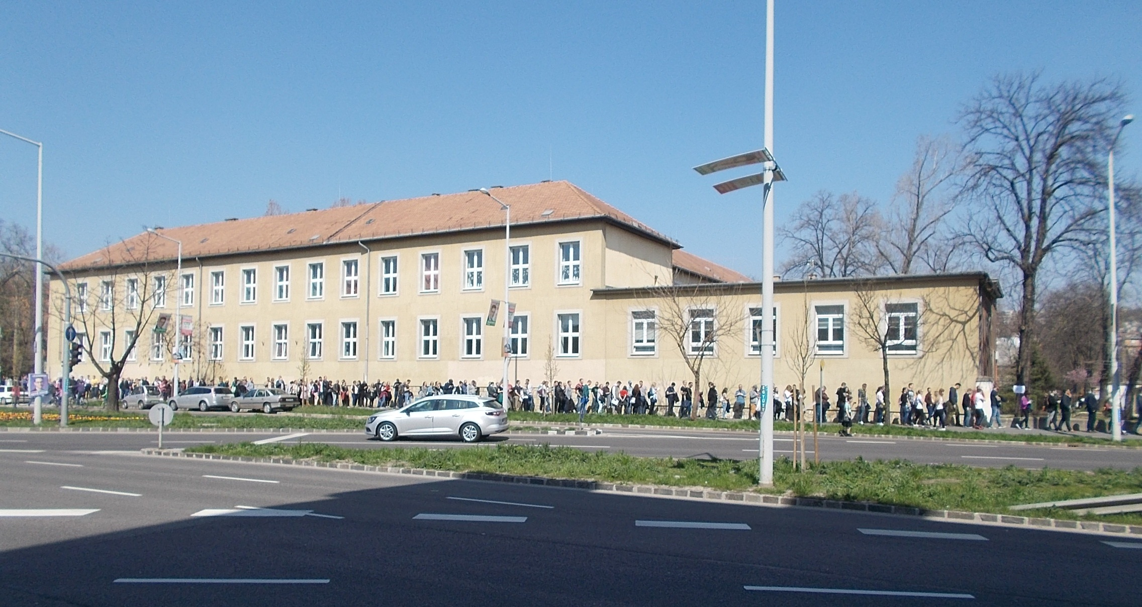 Election day. Hundreds of people waiting for hours in the line. - Bocskai út, Szentimreváros neighborhood, Újbuda.